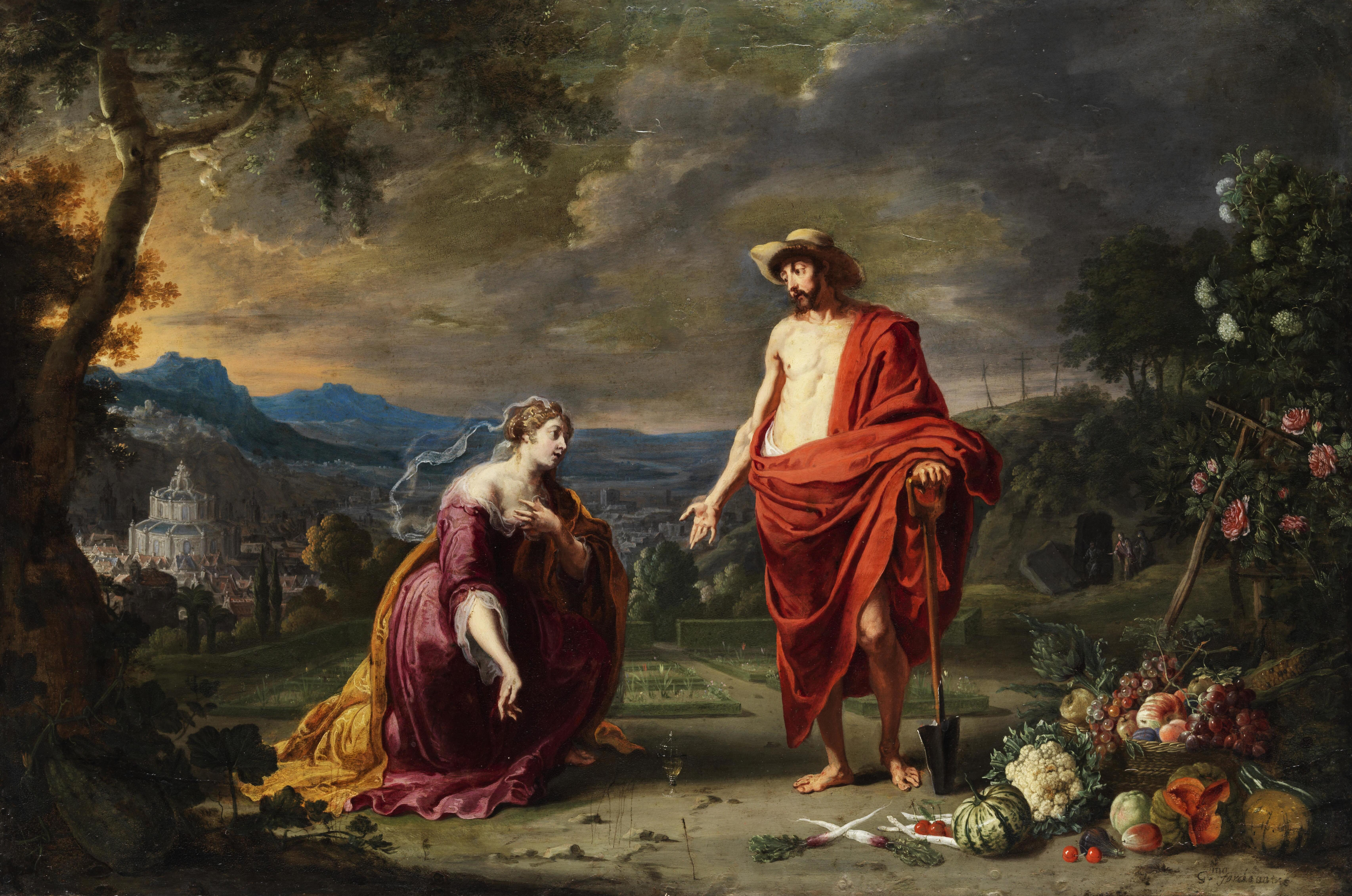 Jesus als Gärtner vor der knienden Maria Magdalena. (Noli me tangere). This image is available from the Netherlands Institute for Art Historyunder digital ID 224696. This tag does not indicate the copyright status of the attached work. A normal copyright tag is still required. See Commons:Licensing.